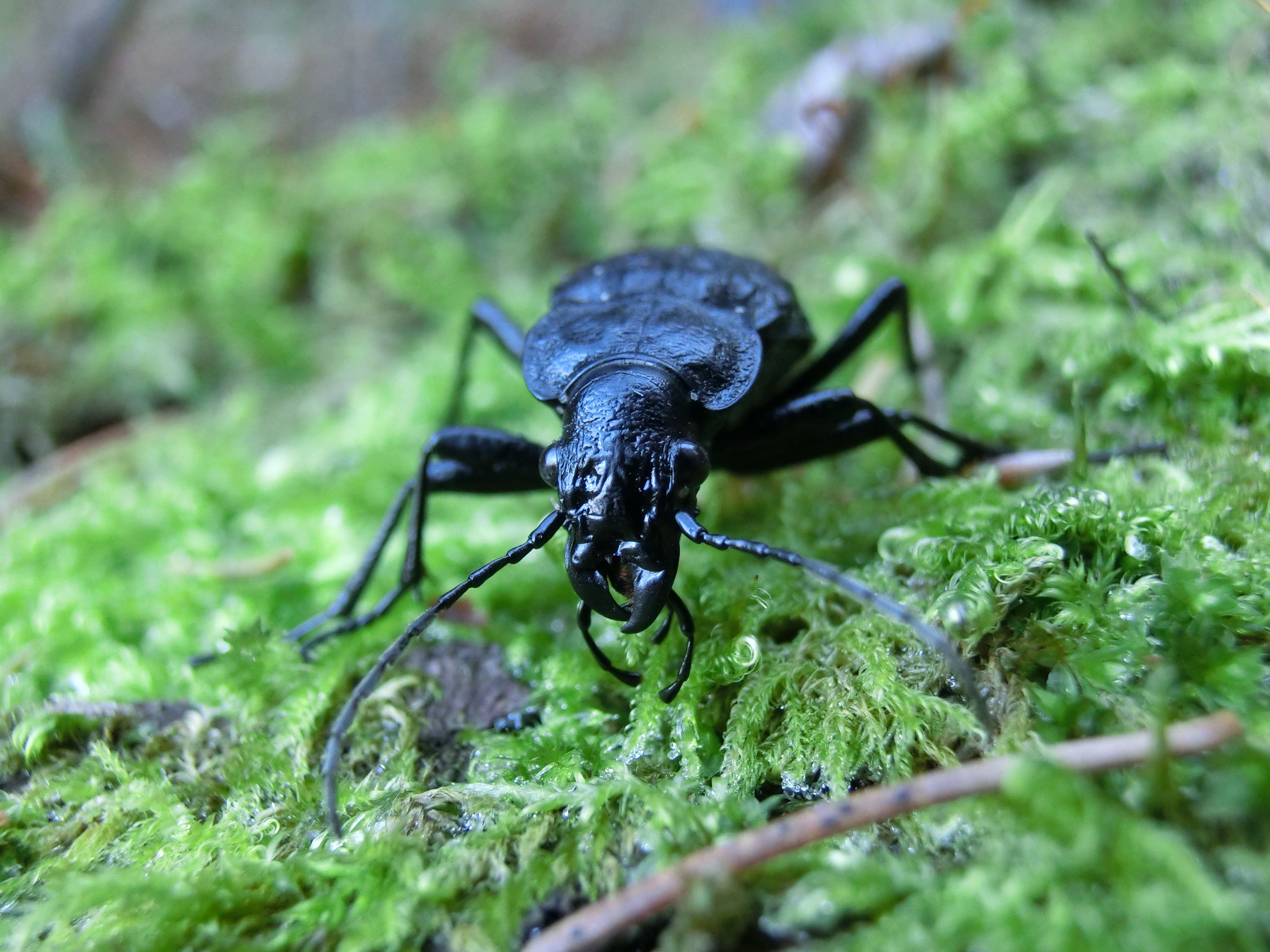 carabus variolosus